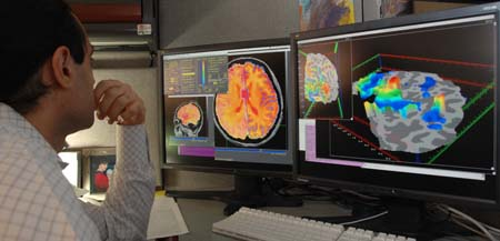 The image is, per that URL, in the public doman: "NIMH publications are in the public domain and may be reproduced or copied without permission from the National Institute of Mental Health"